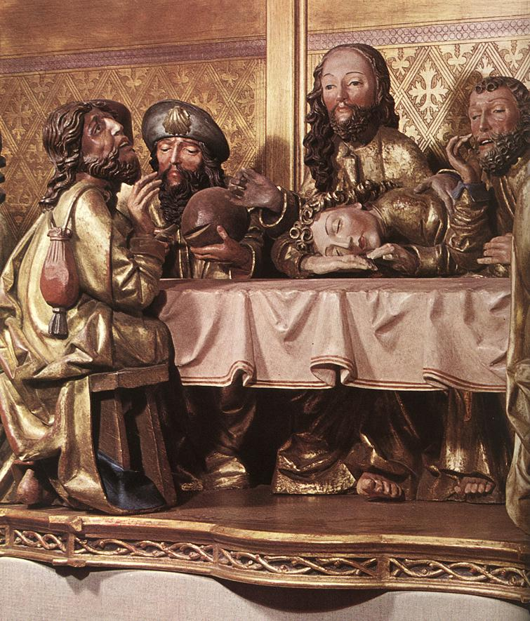 Depiction of Last Supper from the bottom part of the main Altar, showing Judas, Jacob, Jesus Christ, John and Peter